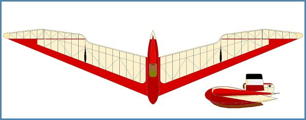 Milbert Hansa Flying Wing